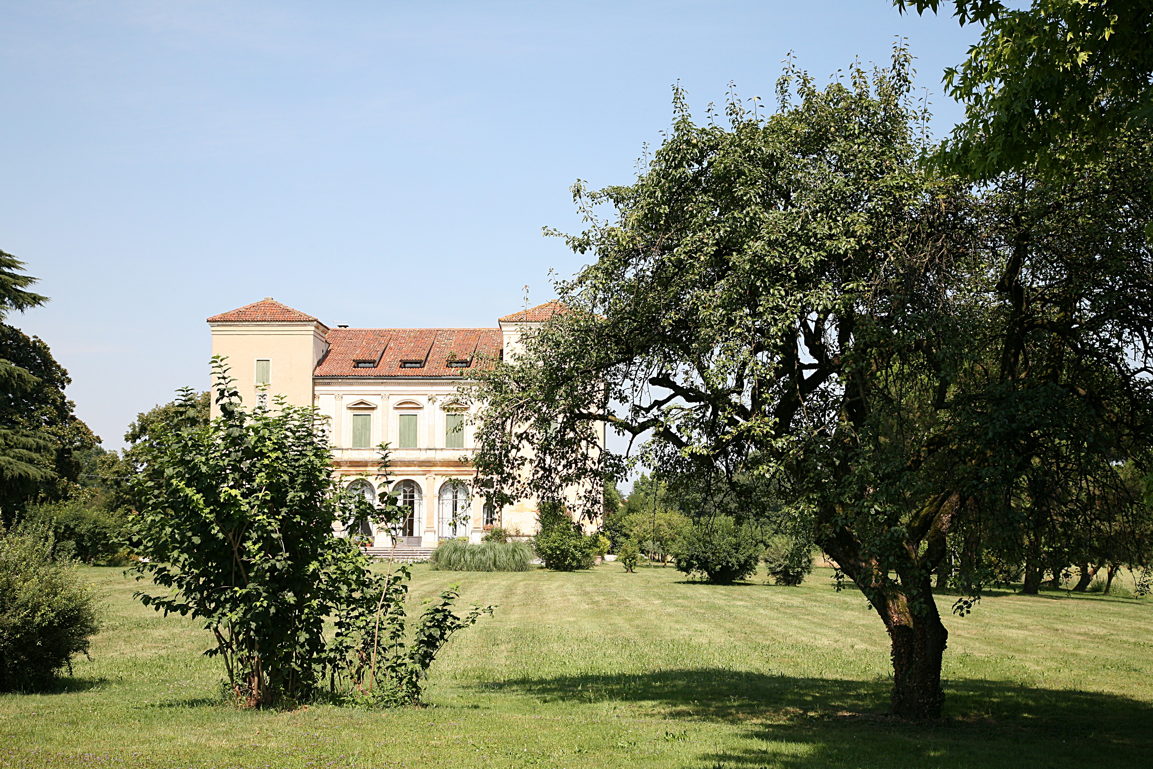 A villa just outside Vicenza. Tradition has it that Trissino here met the young man he would later give the name Andrea Palladio